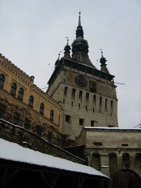 Made by me, December 2005.